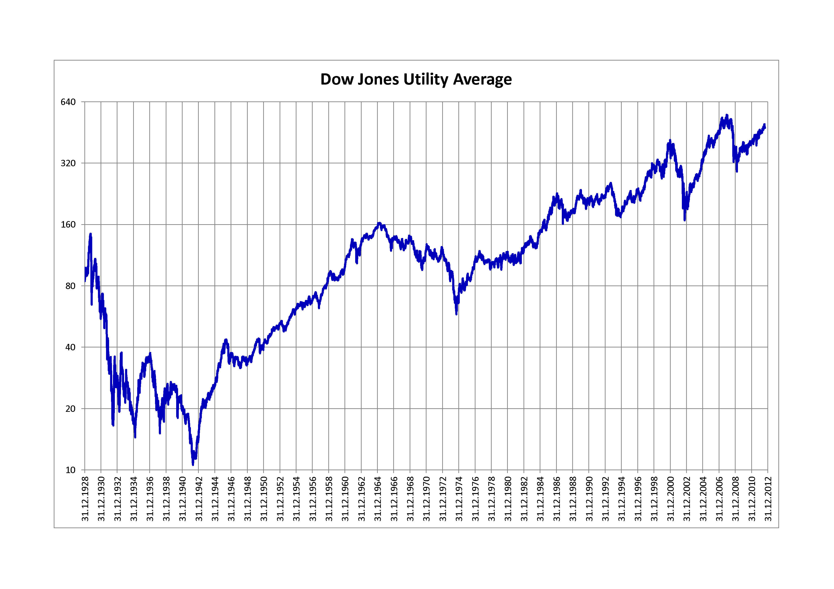 Dow Jones Utility Average from December 1928 to August 2012 (daily closings)